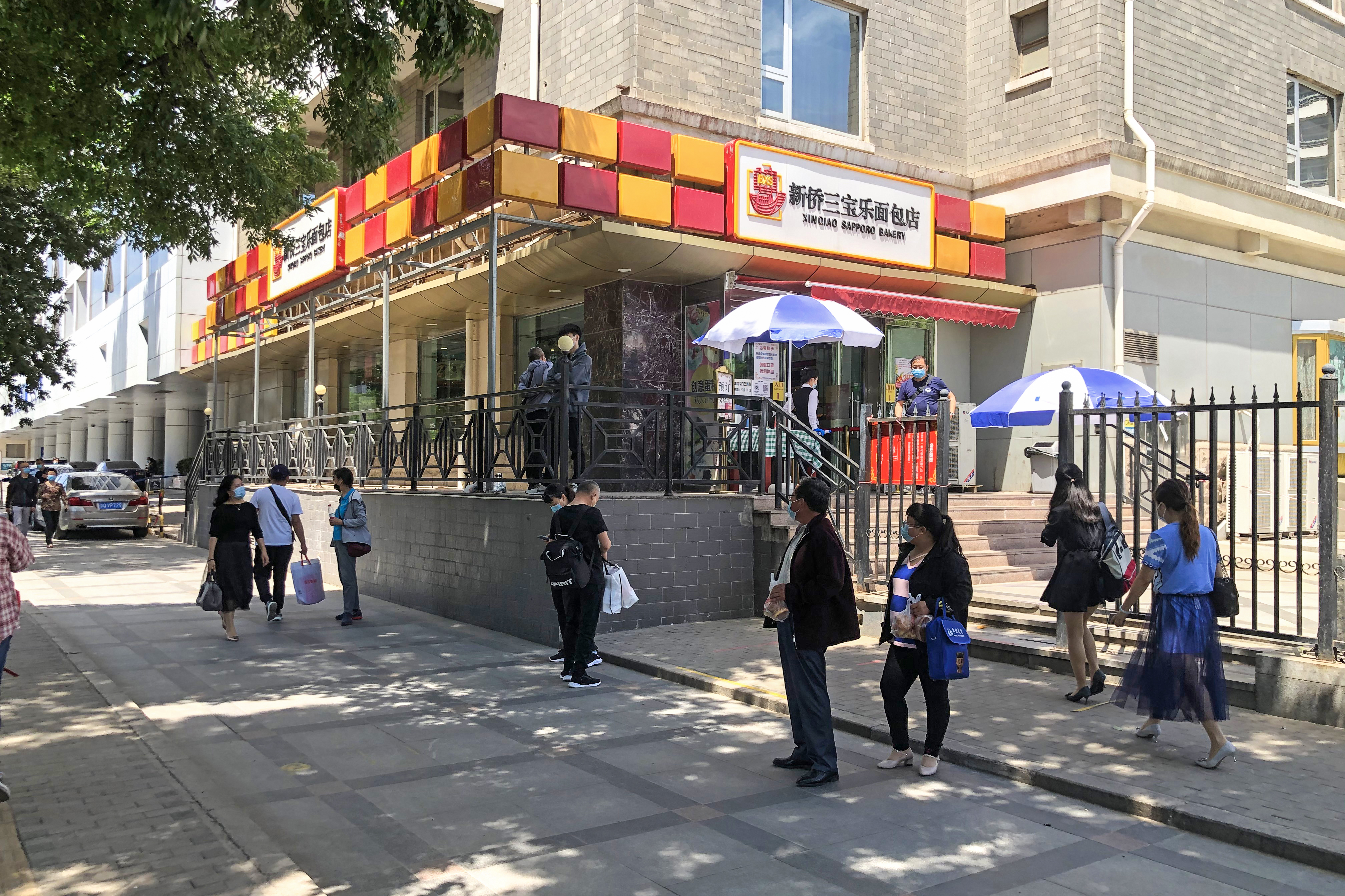 The bakery is established in 1985... still red hot today at Chongwenmen.